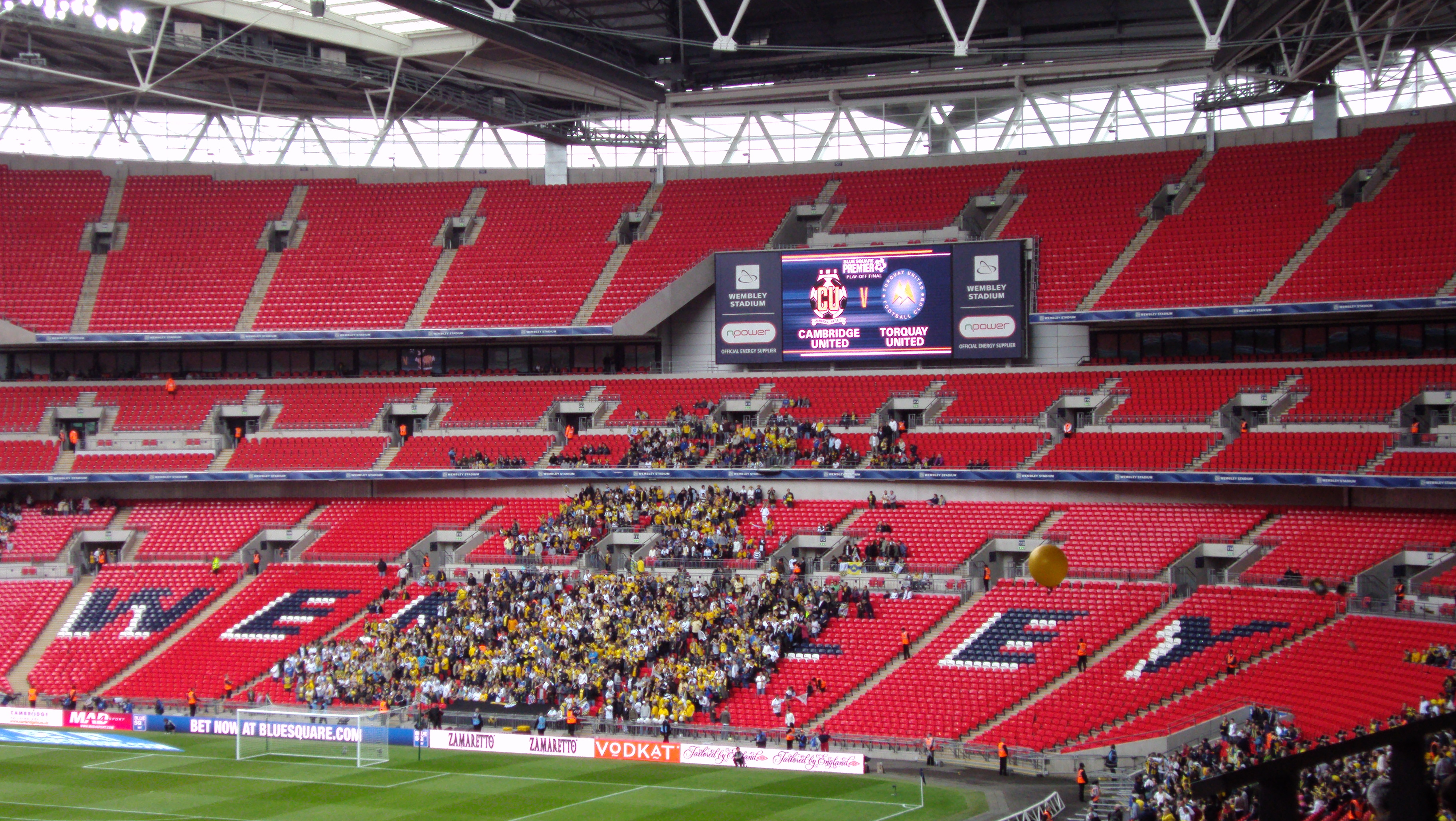 A photo of the Torquay United Fans at Wembley for the Blue Square Premier play off final 2009. Taken by Hugh Burton from the Cambridge End on Sunday 17th May 2009